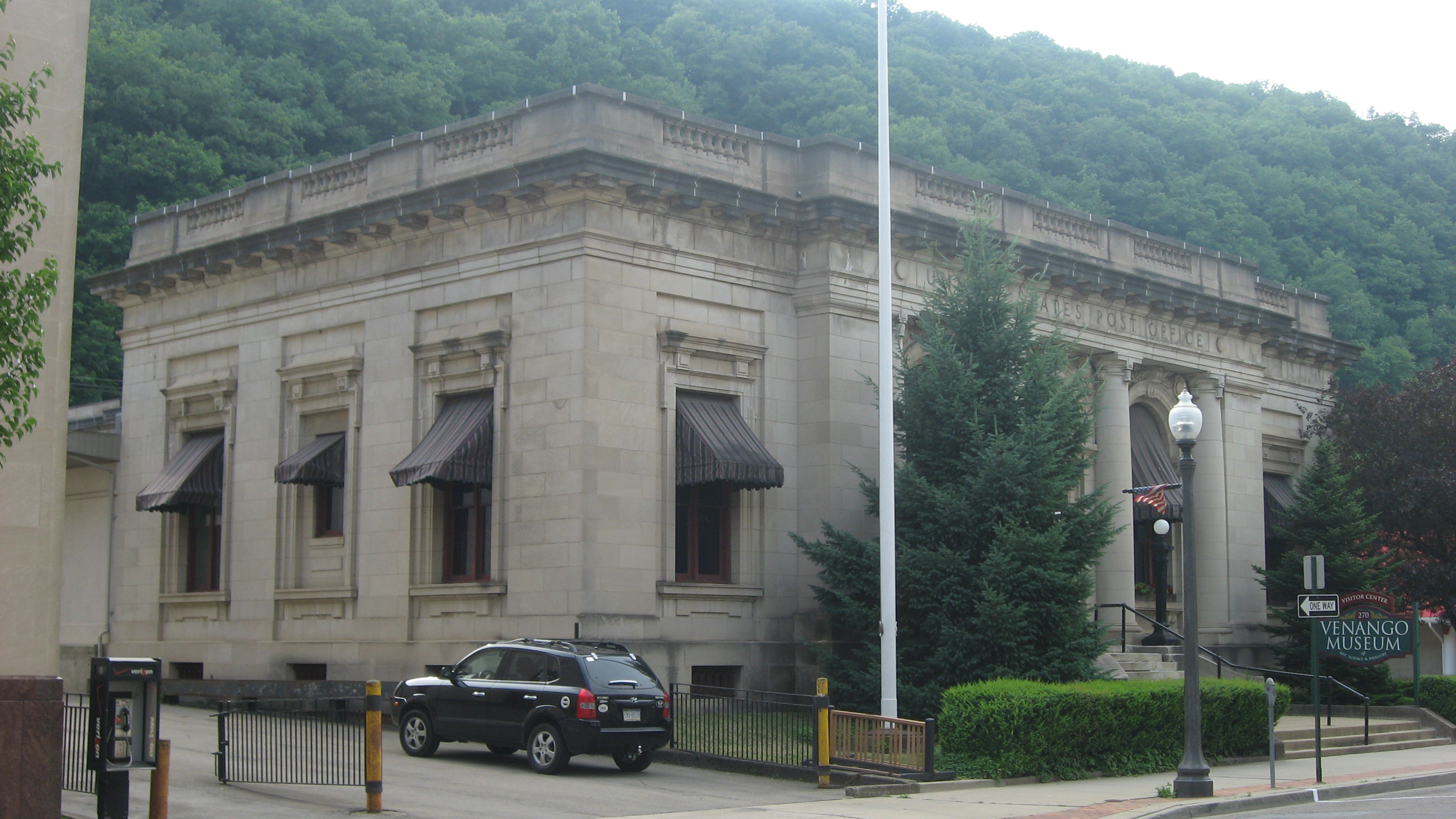 Front and southern side of the former U.S. Post Office in Oil City, Pennsylvania, United States. Built in 1906 at 270 Seneca Street, it has been converted into a history museum. The post office is listed on the National Register of Historic Places, and it is part of a Register-listed historic district, the Oil City Downtown Commercial Historic District.